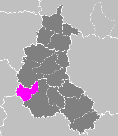 Maps of arrondissements and cantons of France: Arrondissement de Nogent-sur-Seine.PNG